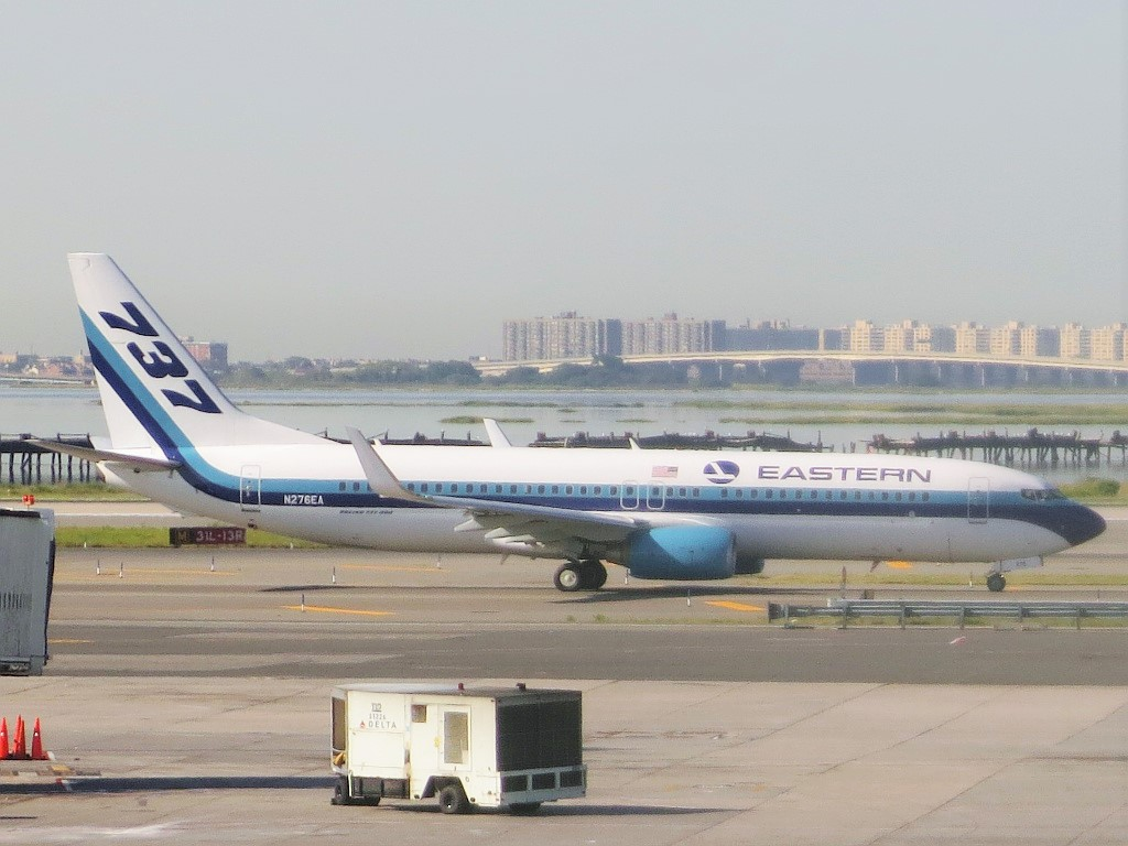 A Boeing 737-800 operated by the new Eastern Air Lines (operating for Caribbean Airlines) taxis between Terminals 1 and 2 at John F. Kennedy International Airport to operate BW727 to Guyana.